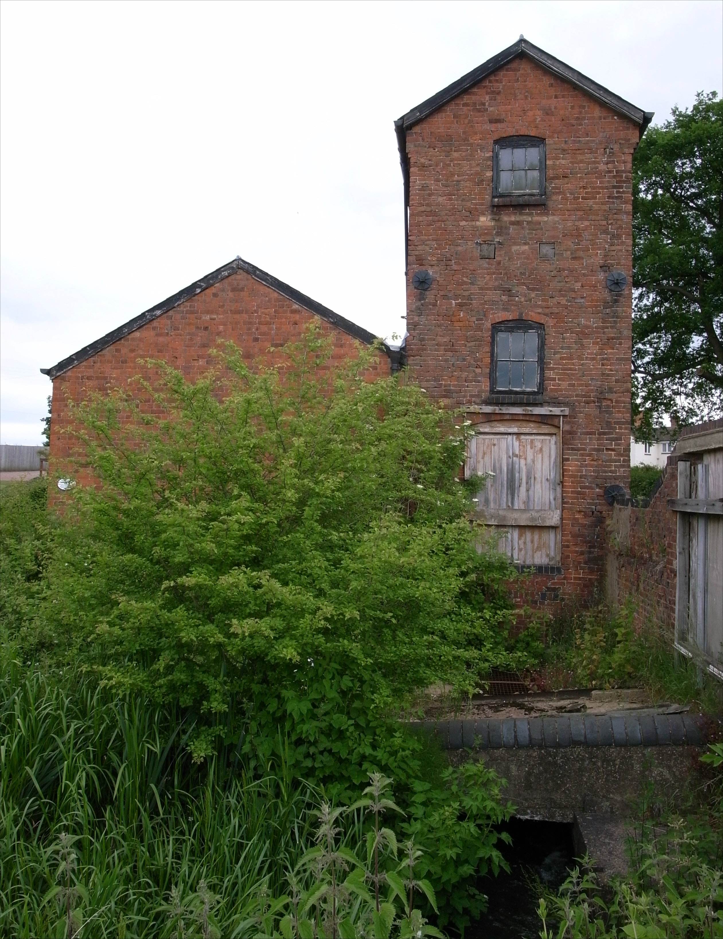 1821 engine house at Earlswood Lakes, Earlswood, West Midlands (formerly Warwickshire). Used to pump water from the reservoirs to the Stratford-upon-Avon Canal.